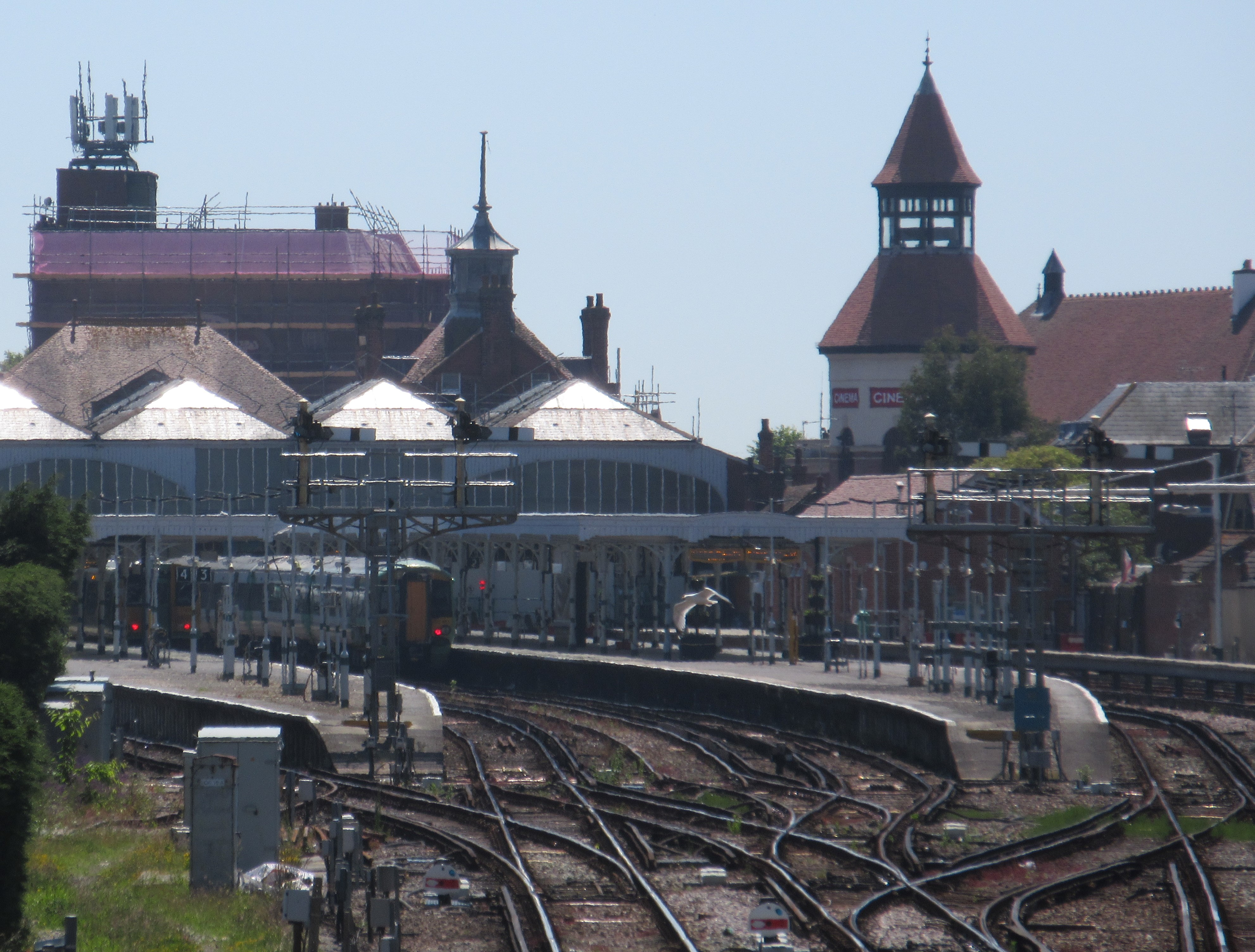 Bognor Regis railway station, a grade II listed building, with clock tower visible to rear. The lantern tower of the grade II listed picturedrome also visible to rear. A class 377 unit is in platform 2 and 313 unit in platform 3